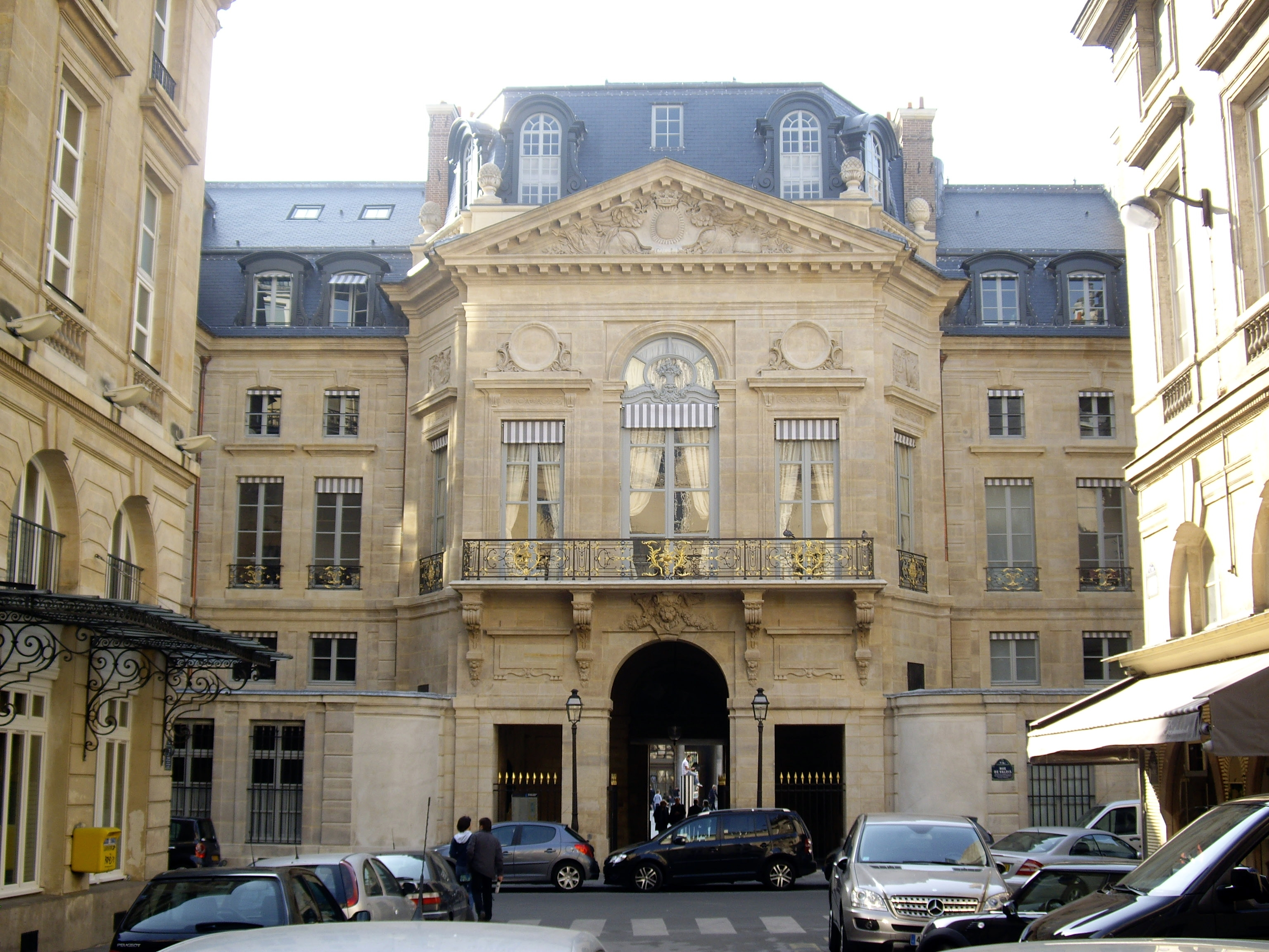 The northern section of the Rue-de-Valois wing of the Palais-Royal, designed by Pierre Contant d'Ivry and built for Louis-Philippe the Fat, Duke of Orléans, in the 1750s, is the one of the oldest surviving structures in the Palais-Royal complex. The large balcony brackets and inventive detailing of the avant-corps (shown in this photograph) combine with the classical solidity of its massing to produce a hybrid of the decorative Rococo style of the early 18th century with the more restrained neoclassicism of the latter half of the century. [Ayers, Andrew (2004). The Architecture of Paris, p. 47. Stuttgart; London: Edition Axel Menges. ISBN 9783930698967.]